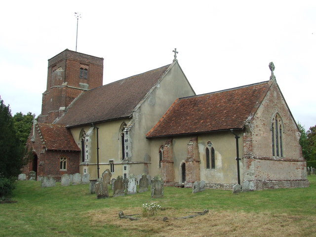 All Saints' parish church, Ashbocking, Suffolk, seen from the southeast